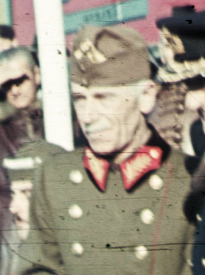 Lt Gen Lajos Keresztes-Fischer (1884–1948) in 1941. He served as Chief or General Army Staff in 1938. He was Chief of the Military Chancellery from 1935 to 1938 and from 1939 to 1942. He was the younger brother of Minister of the Interior Ferenc Keresztes-Fischer.